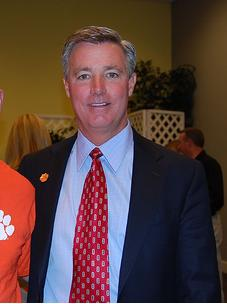 Tommy Bowden, former coach of the Clemson Tigers football team. (The image was cropped from a selfie taken with Garkeith (talk · contribs).)